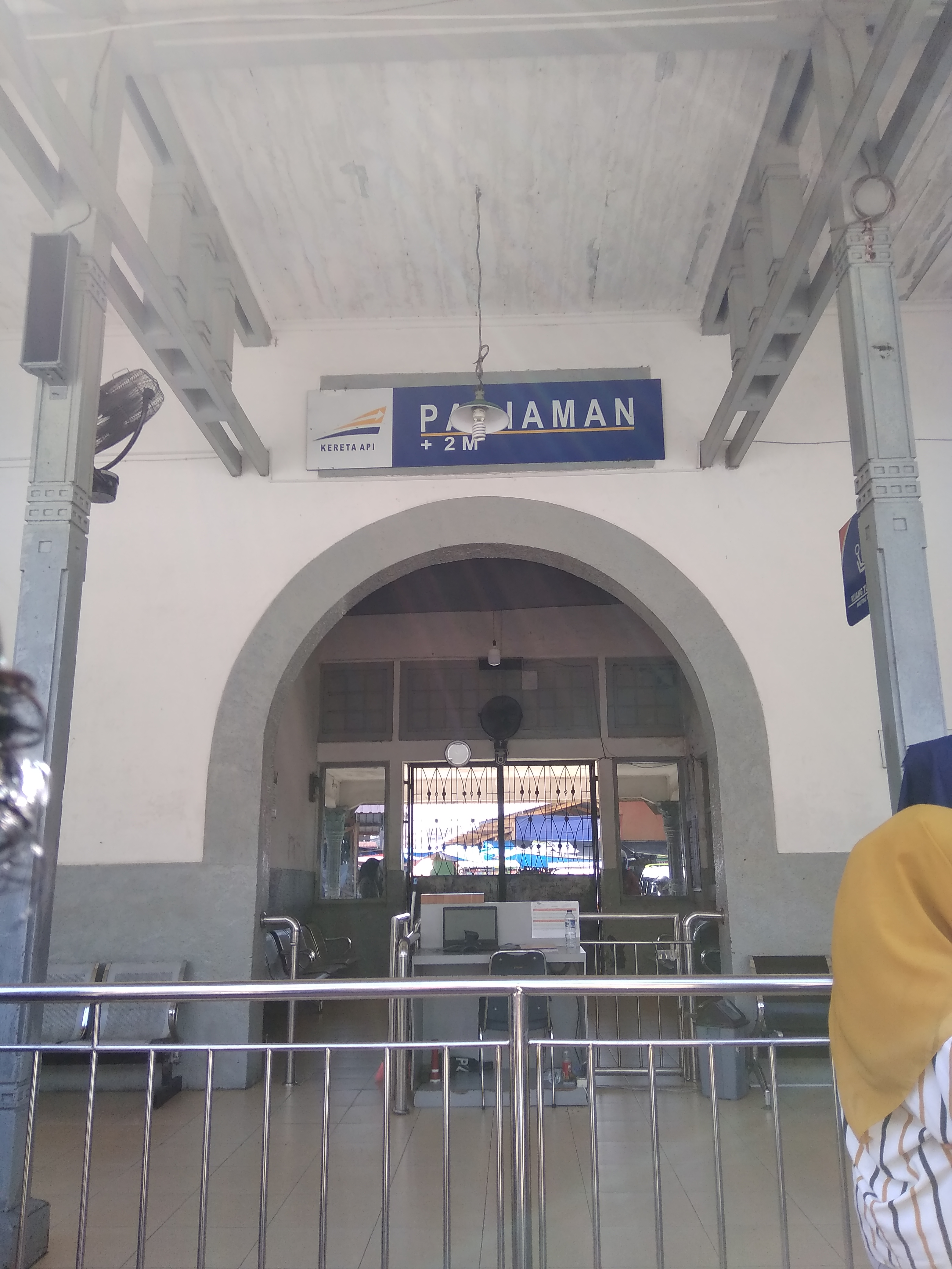 Pariaman train station in West Sumatra, Indonesia. Located a few meters from Gandoriah Beach.